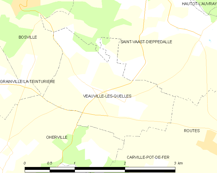 Map of French municipality Veauville-lès-Quelles